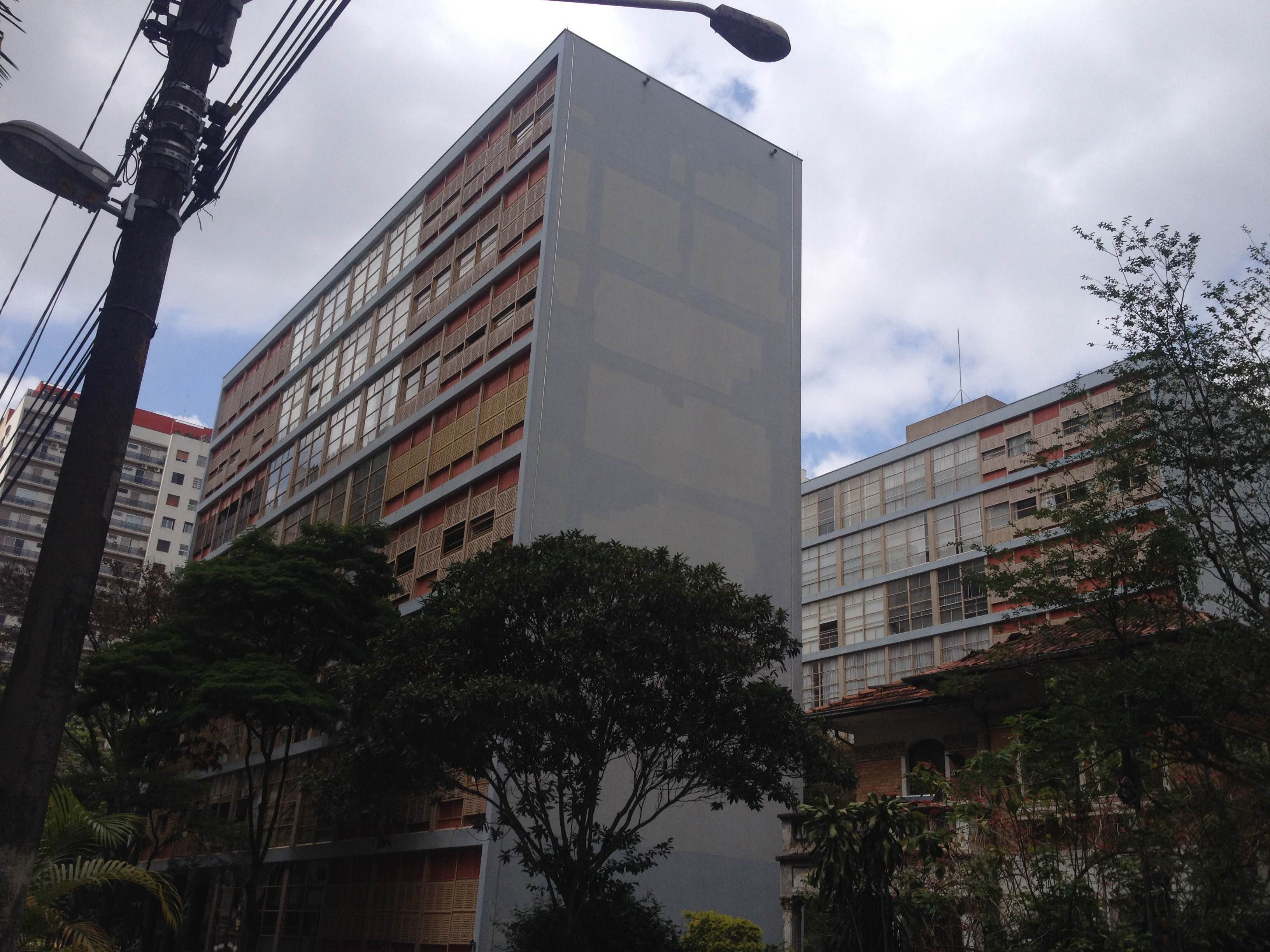 Os dois prédios que compõe o Edifício Louveira.